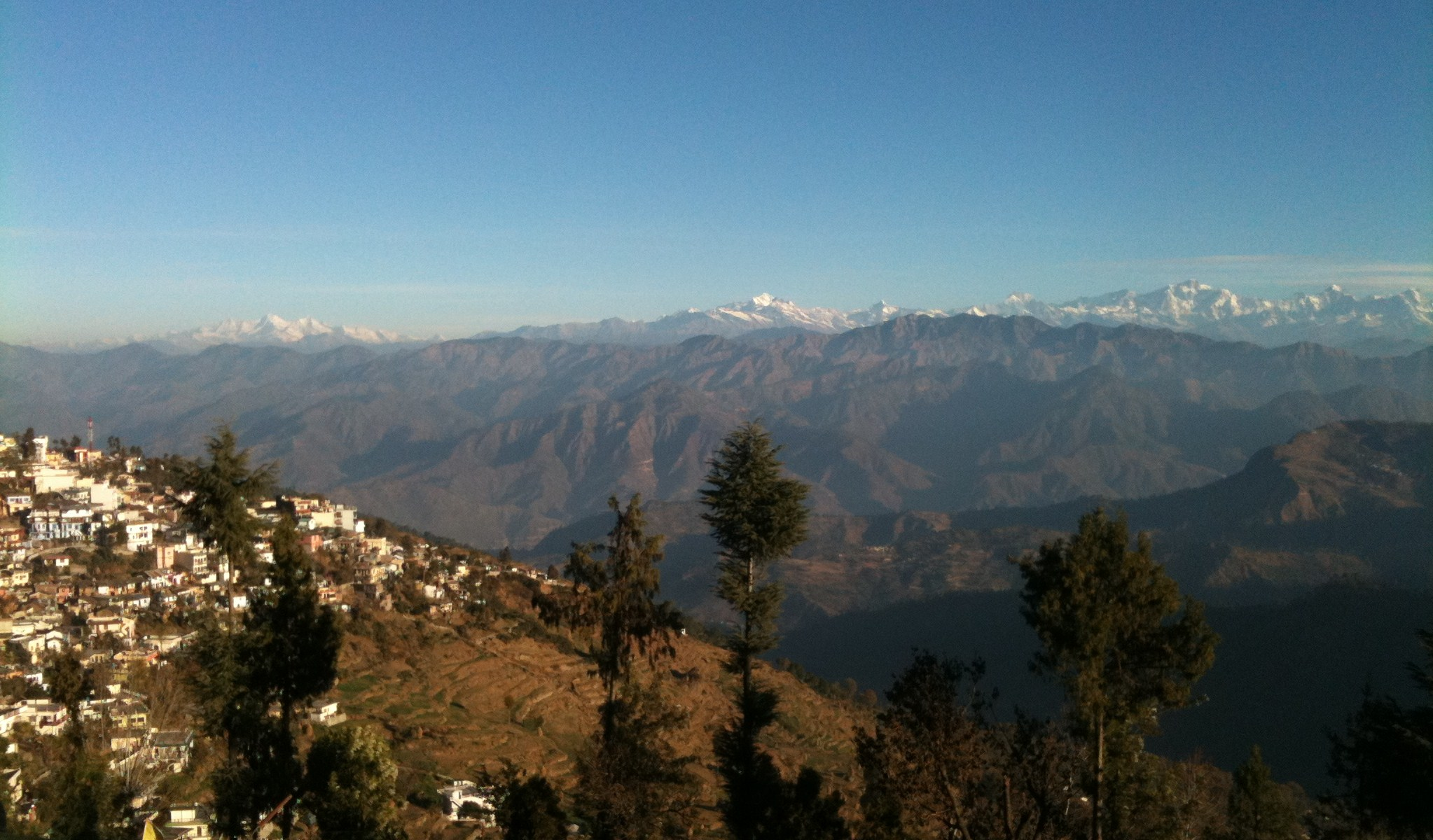 View of the pauri situated at Garhwal Himalayas (Pauri, Garhwal, Uttarakhand, India.